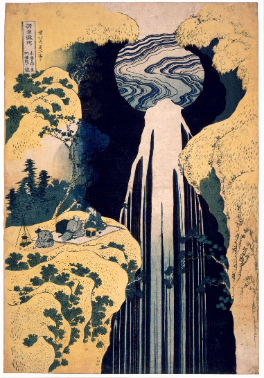 Strange Waterfall Upside Circle